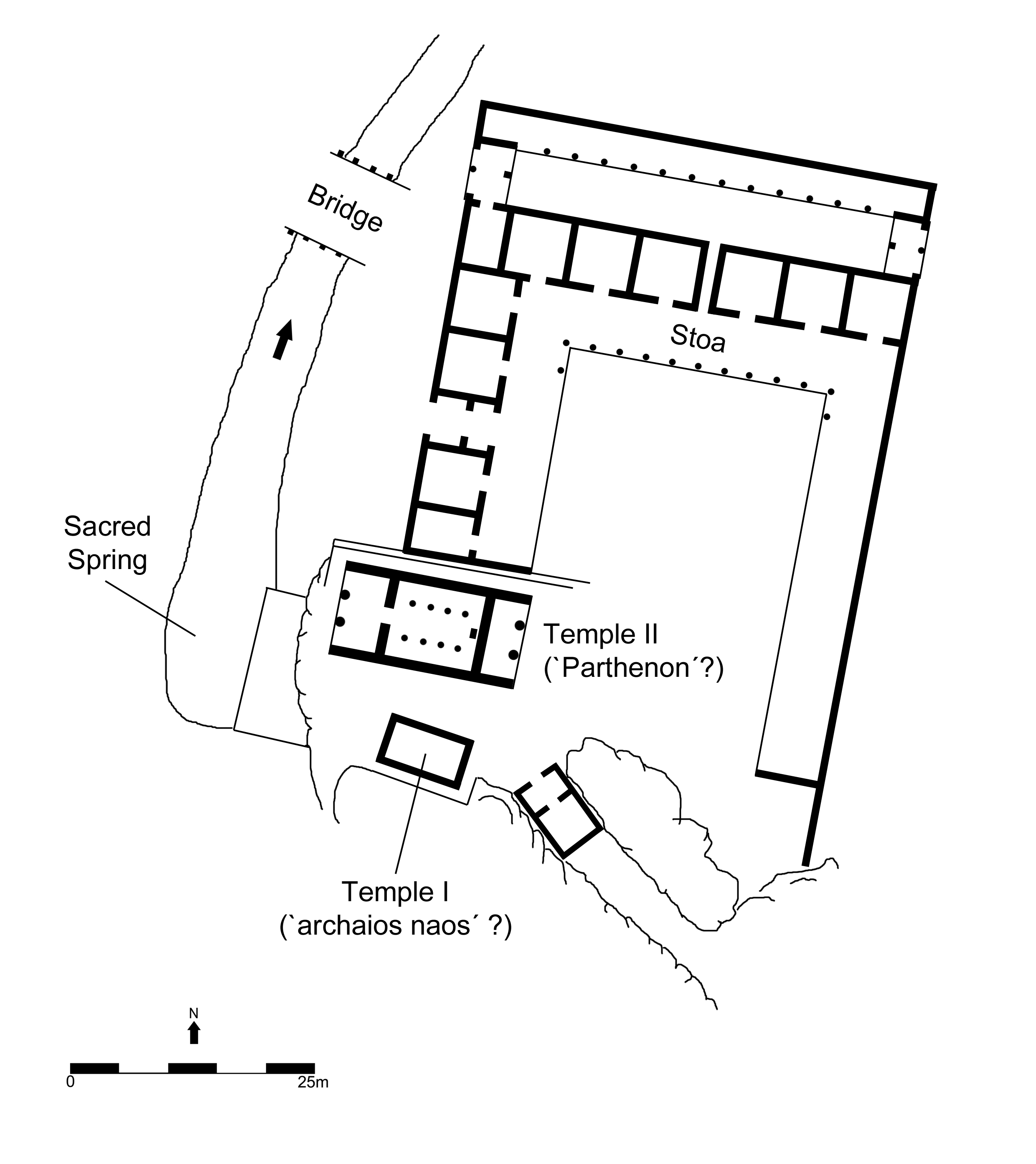 Brauron, Greece. Sketch plan of sanctuary of Artemis.